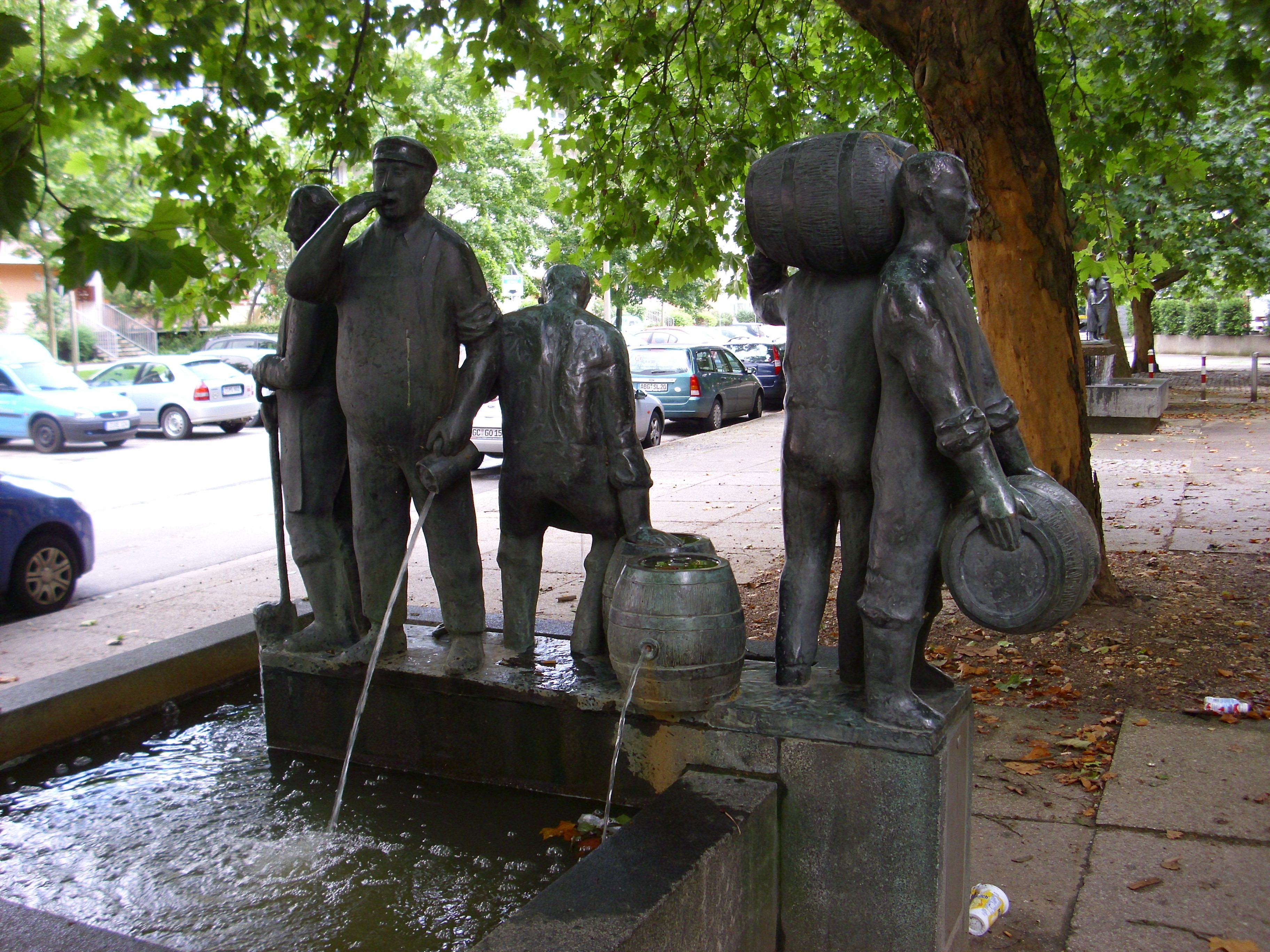 Fountain at Katharinenstraße in Zwickau, erected in 1984.